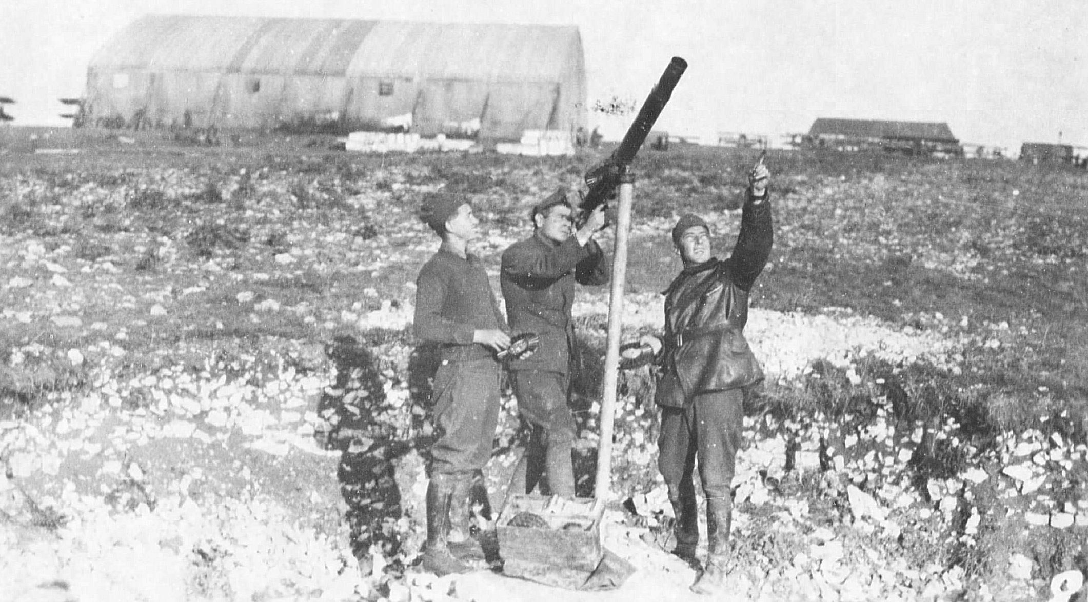 Local airdrome defense with a lewis machine gun